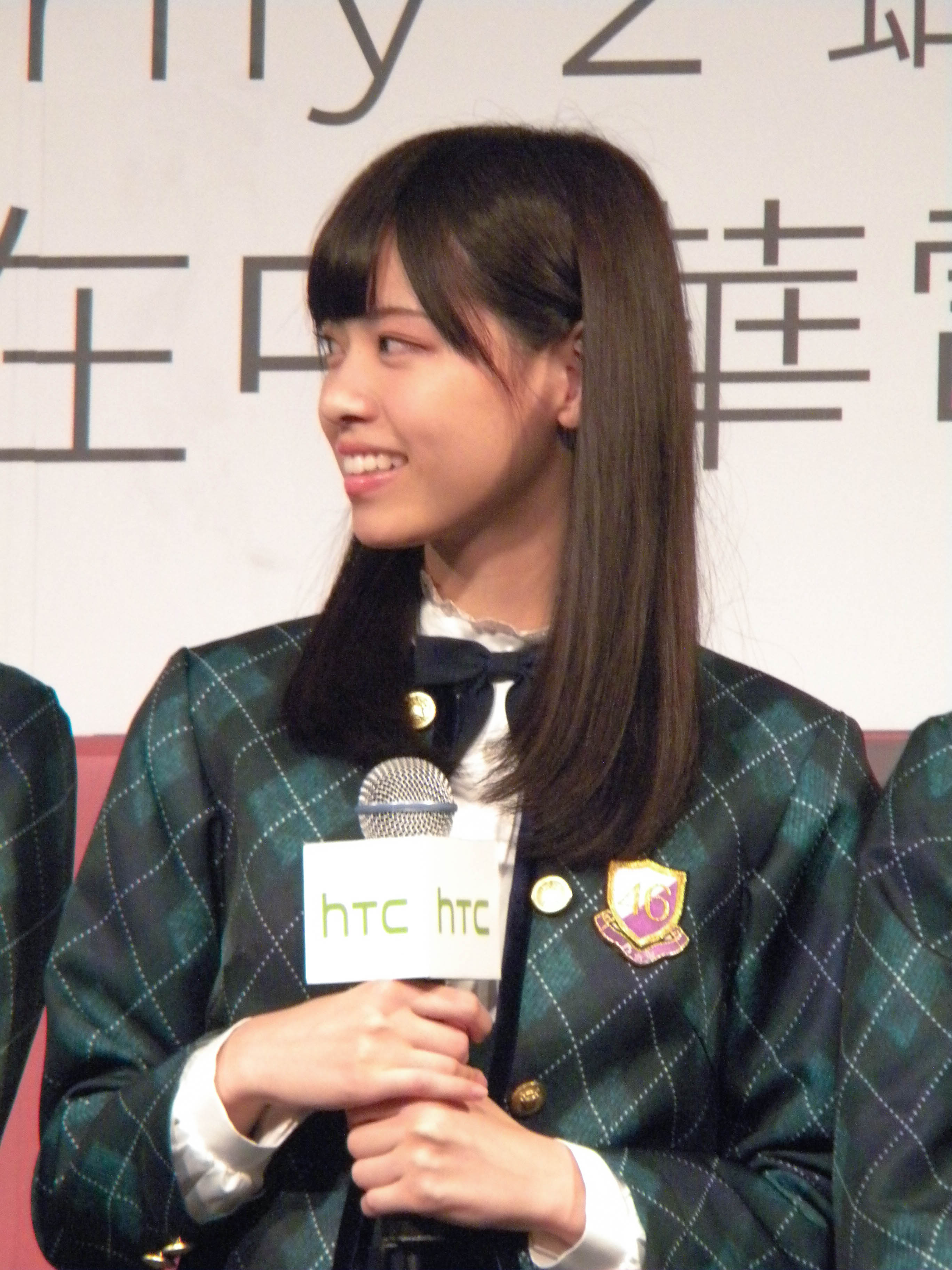 Nanase Nishino (Nogizaka46) on HTC and Chunghwa Telecom HTC Butterfly 2 joint marketing event at Taipei, Taiwan.